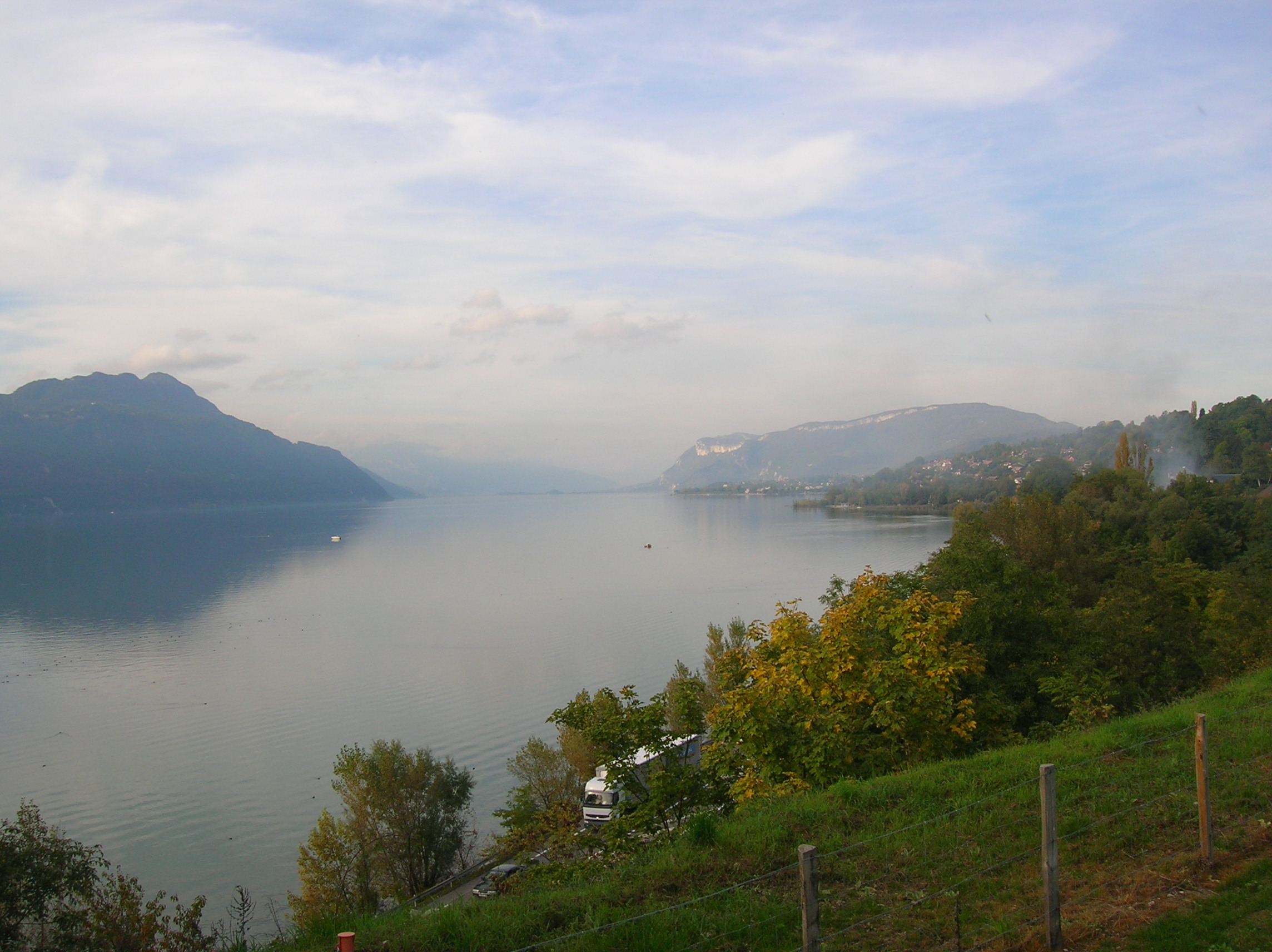 Landscape of Lake of Bourget in Savoy (French Alps)